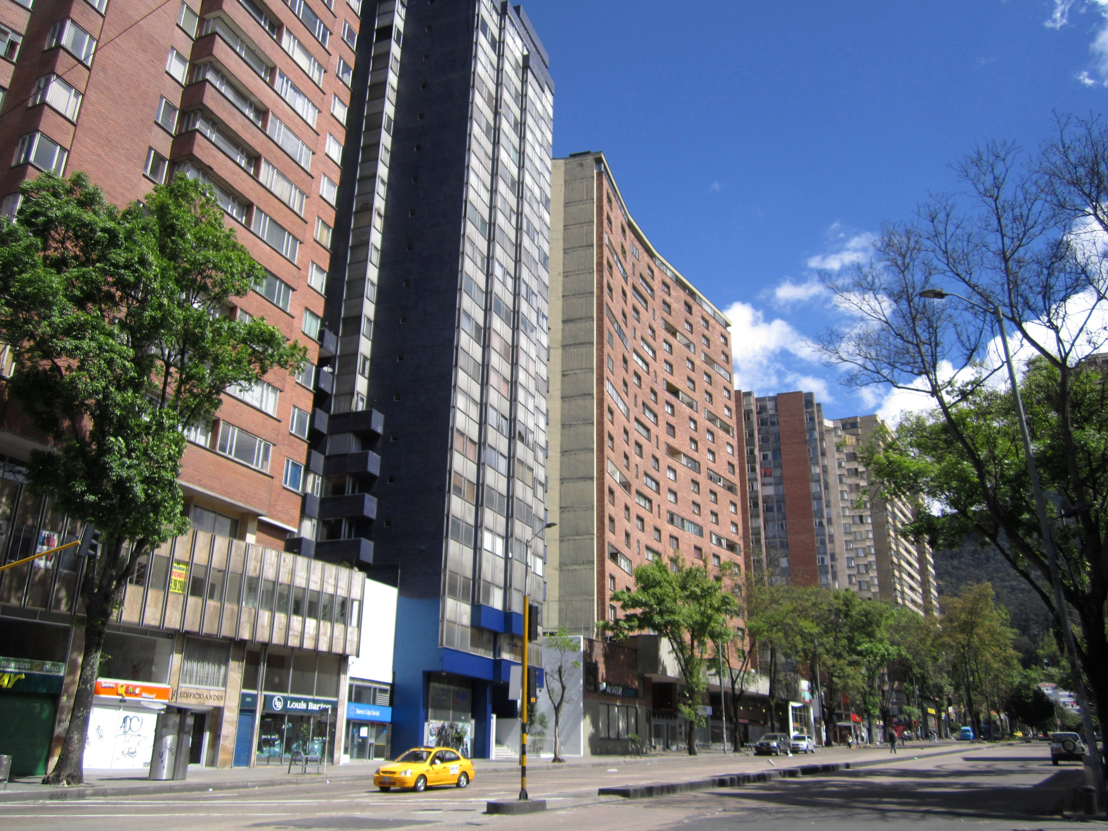 Bogotá